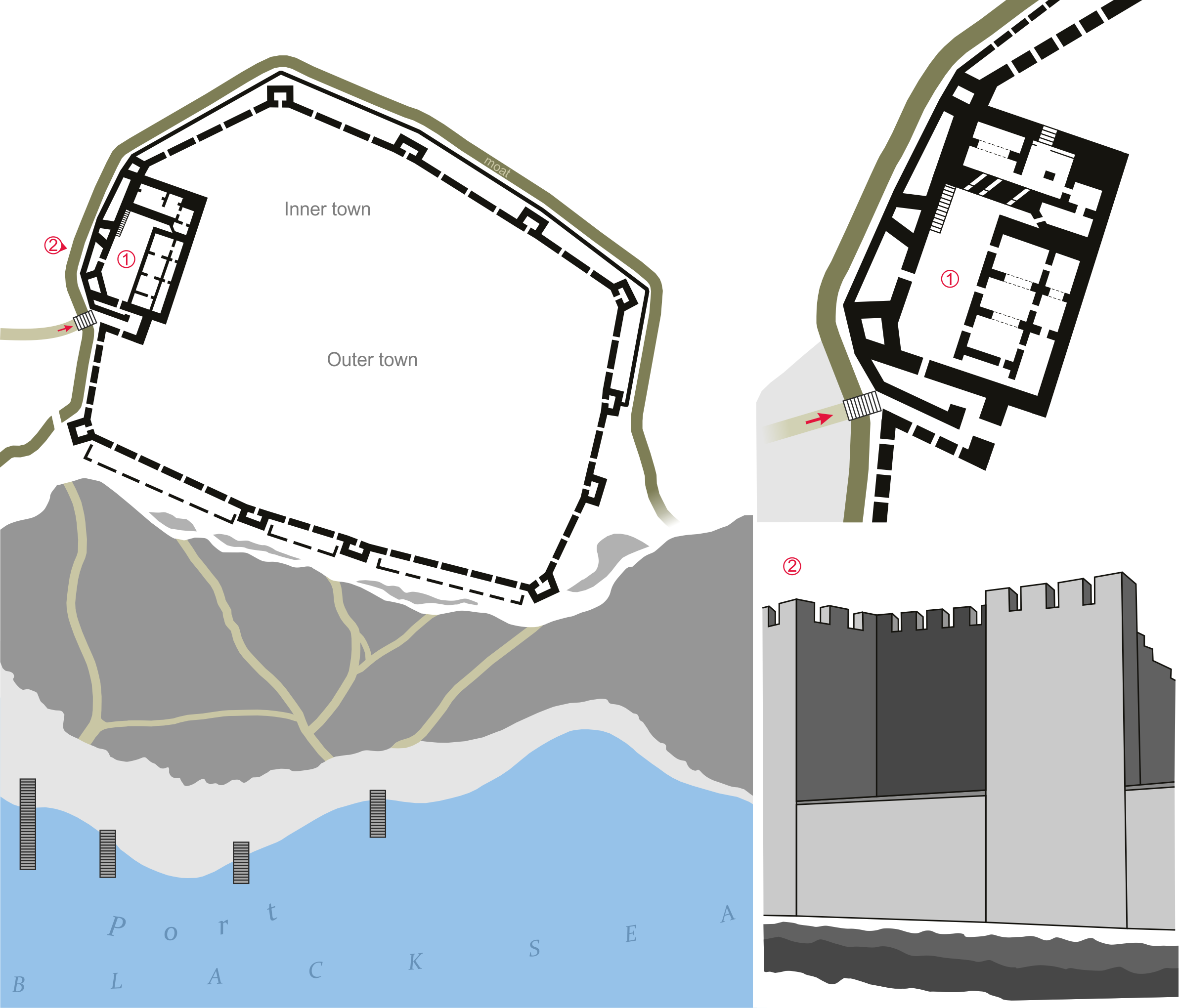 Plan of the medieval Bulgarian fortress Varna. Based on: [1]